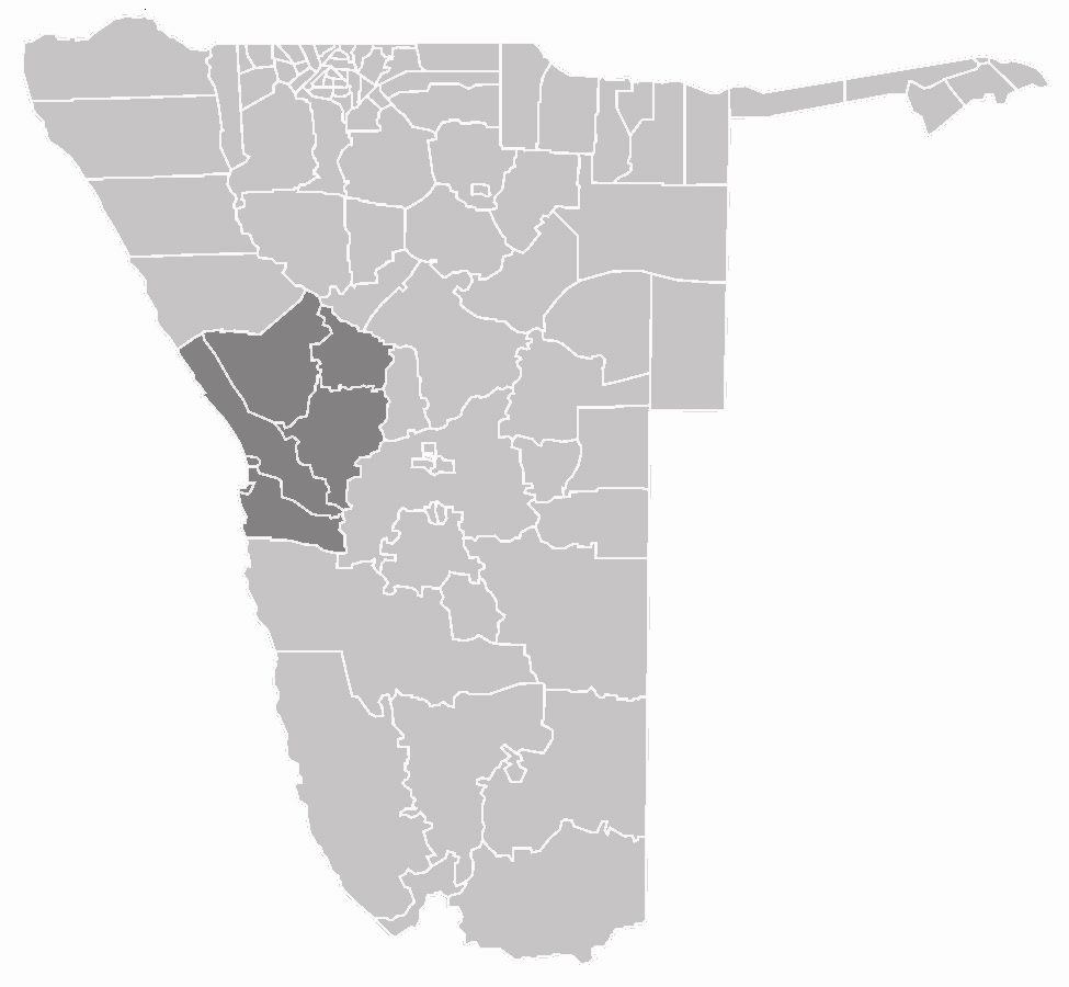 map of the Erongo region in Namibia